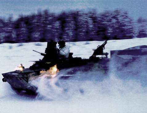 Swedish armoured personell carrier PBV 401 in sub-arctic environment. Russian designation MT-LB.